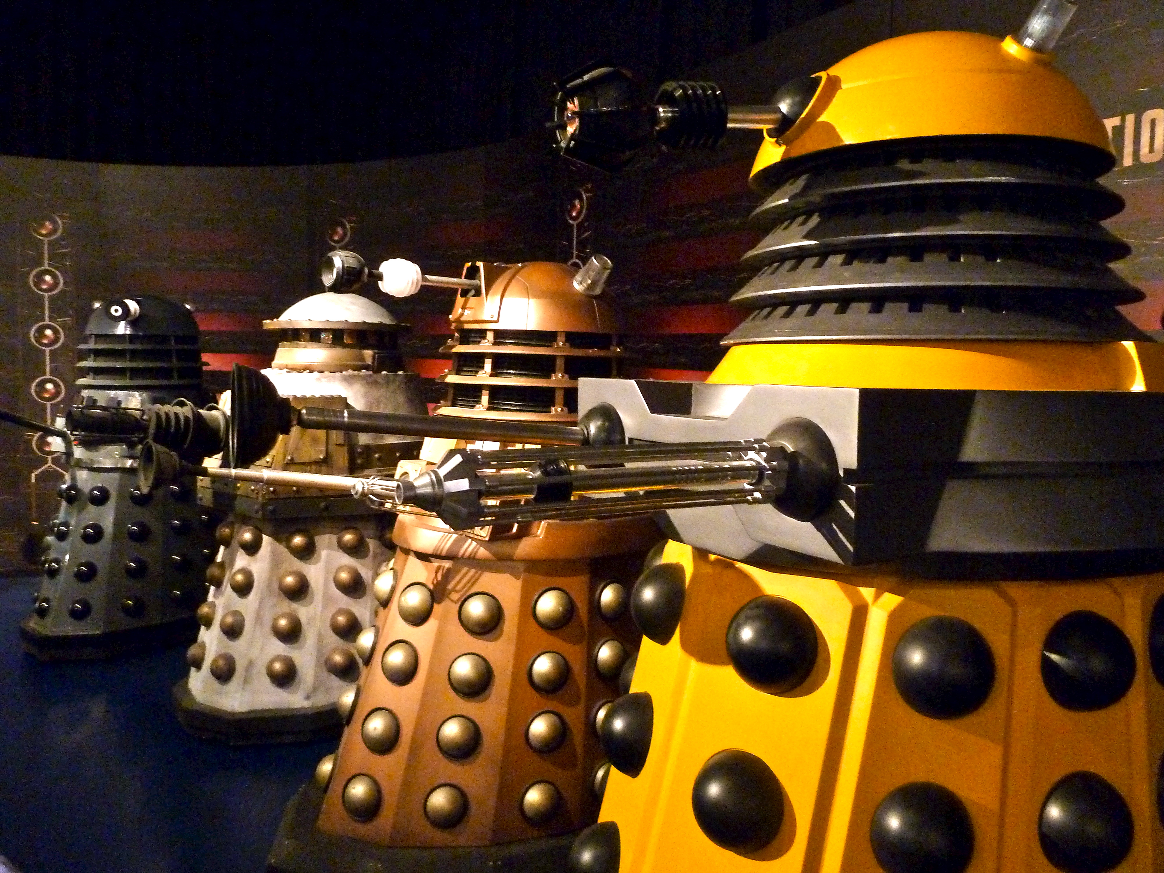 Daleks Doctor Who Experience